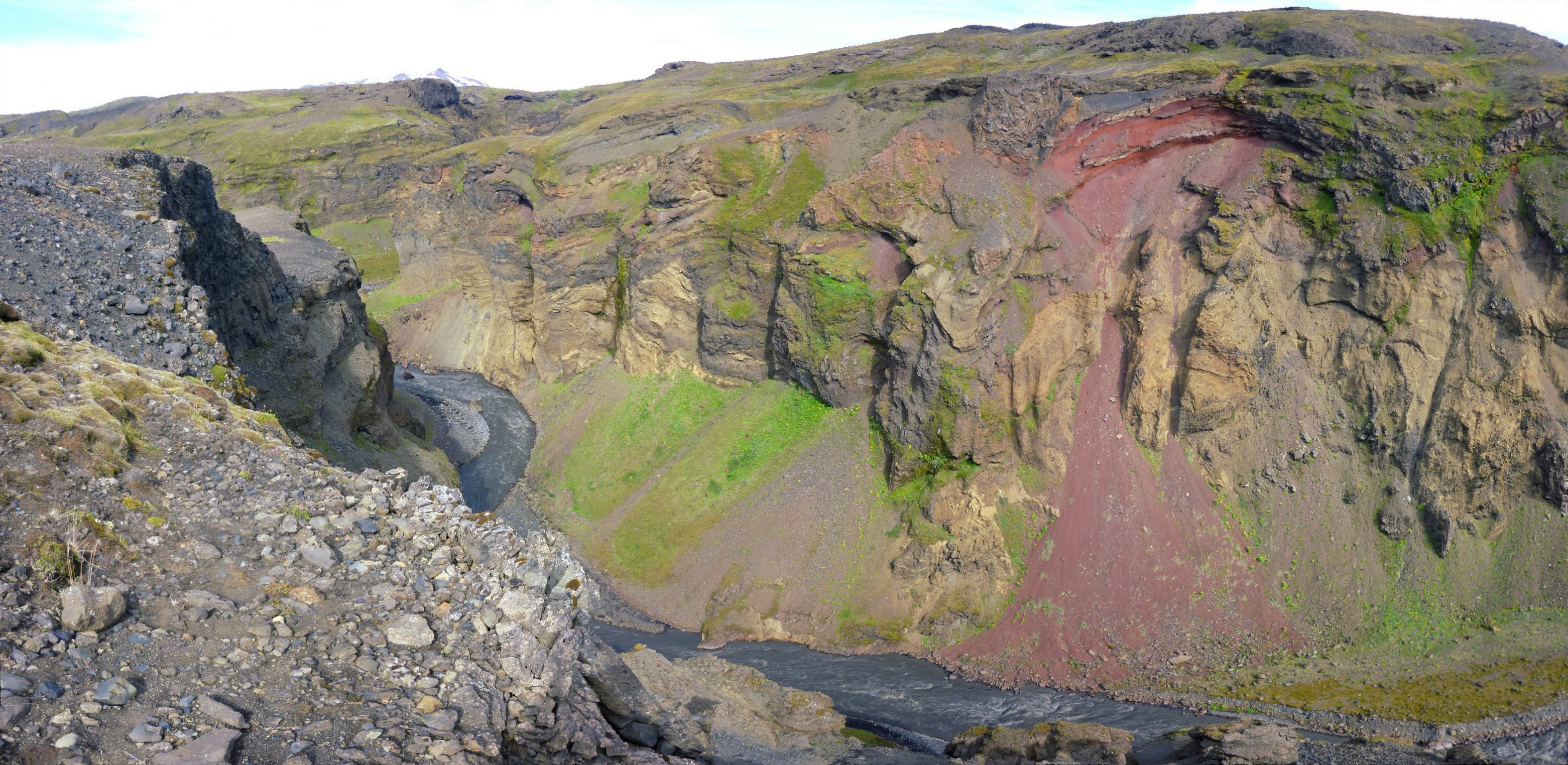 Markarfljótsgljúfur canyon, on the Laugavegur hiking trail, in iceland. Panorama created with Hugin from 3 vertical wide angle pictures (Panasonic ZX1).